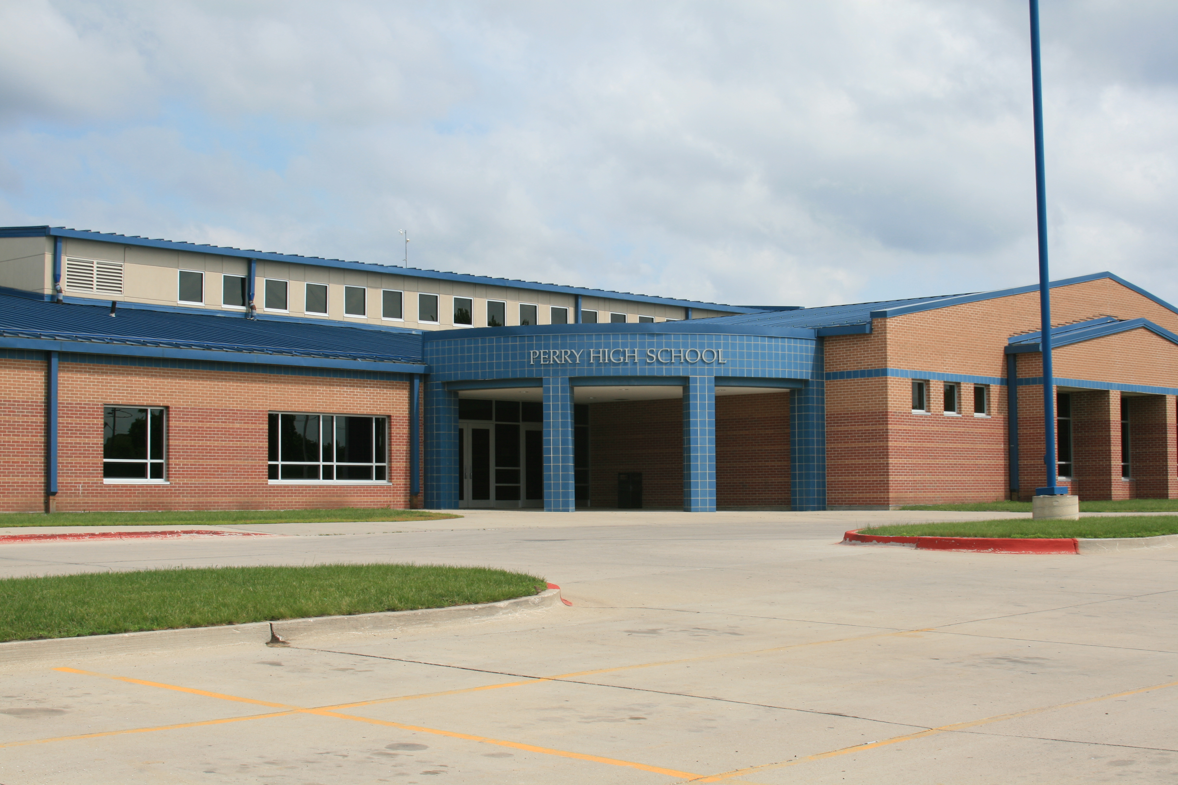 High School located in Perry, Iowa